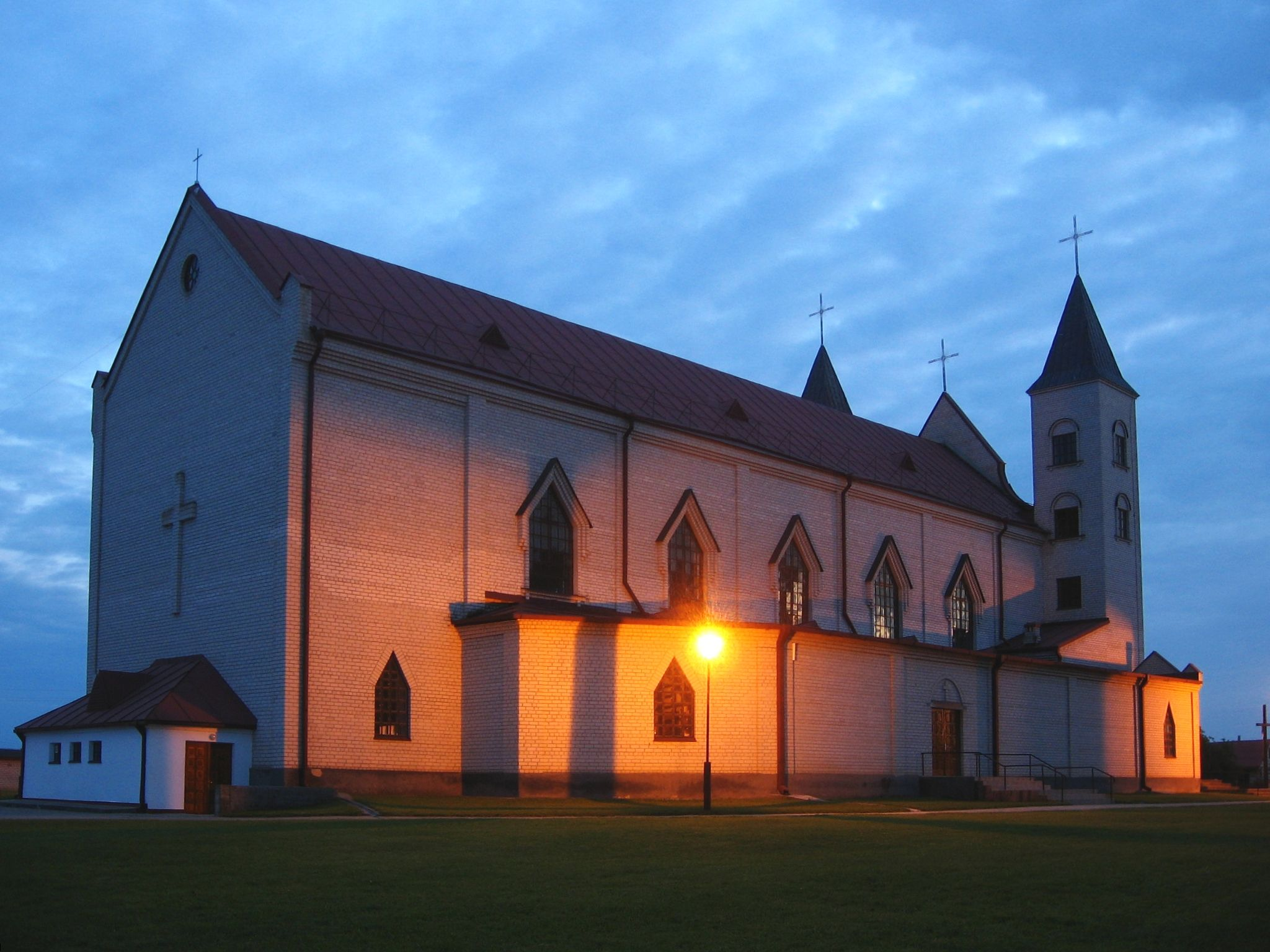 Church in Woronowo - Belarus